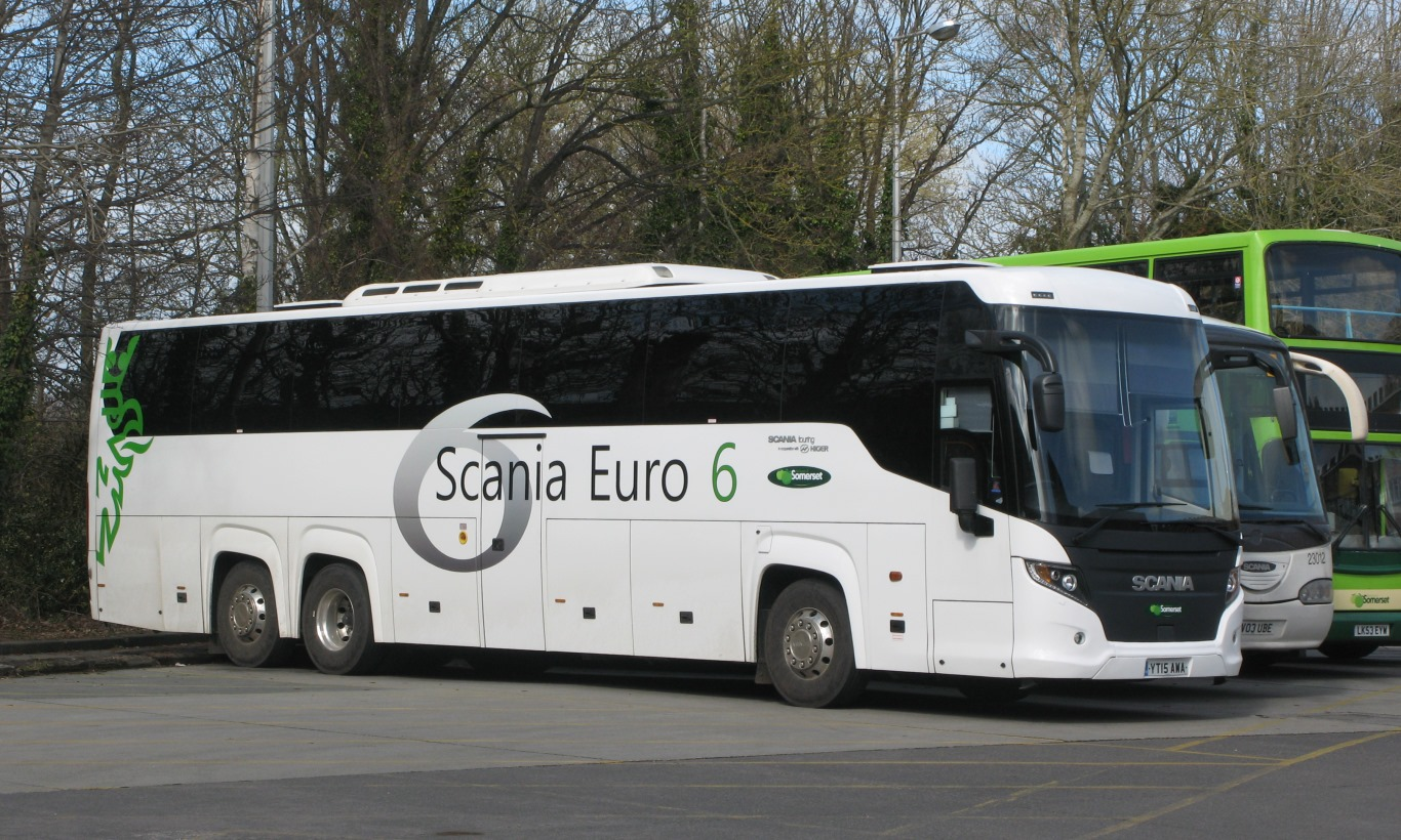 YT15AWA, the Scania K410EB6 demonstrator fitted with Chinese Higer bodywork. It is seen at Taunton Bus Station where The Buses of Somerset were trying it on the Hinkley Point Power Station park and ride contract.